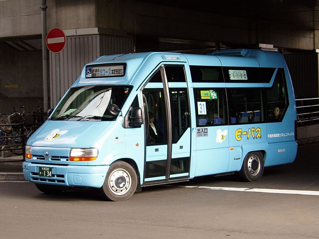 Chitose Sougo Bus "Bee Bus" OmniNova Multi Rider, Japan-Version at Chitose Sta.